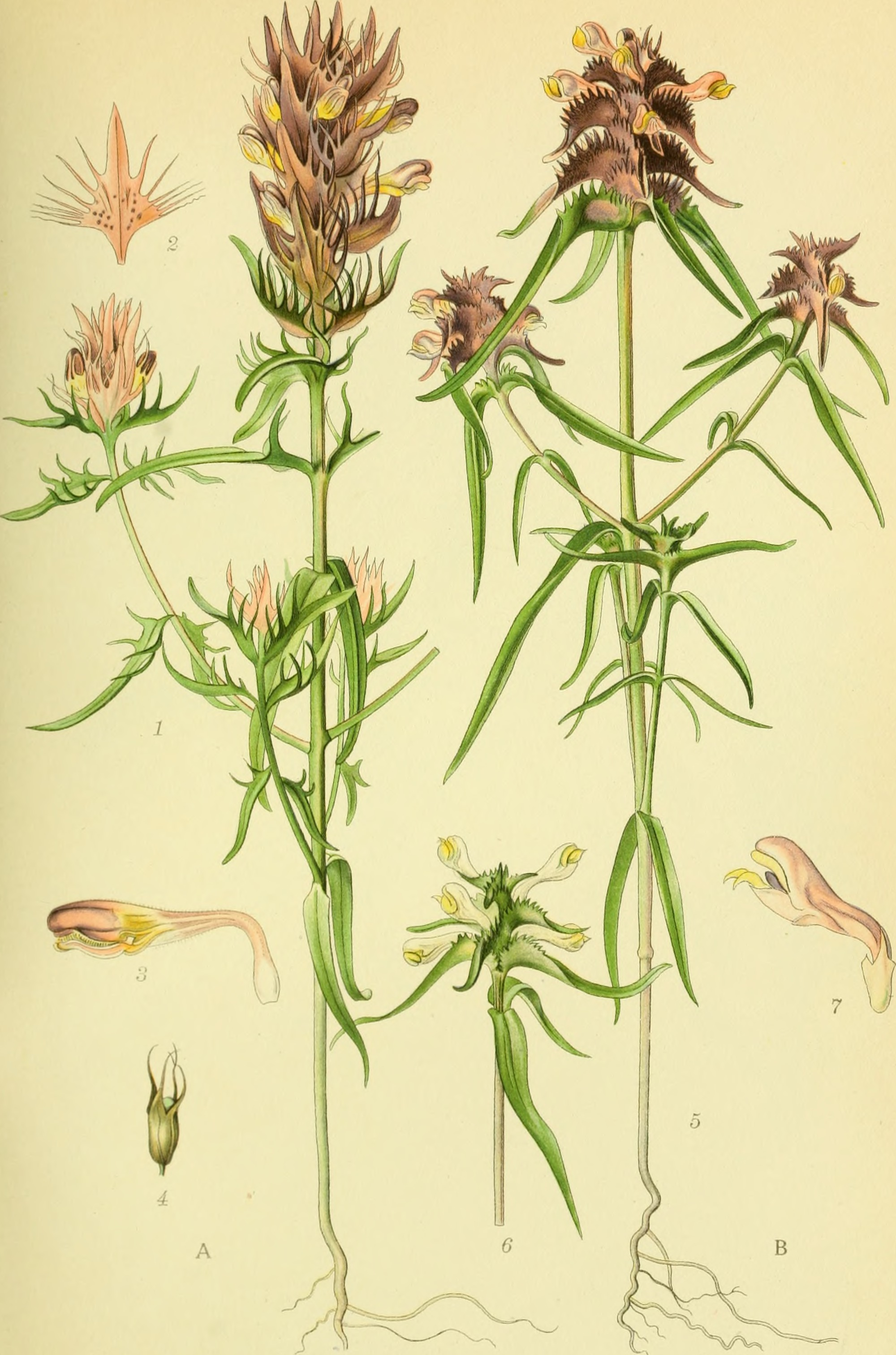 Title: Billeder af nordens flora Year: 1917 (1910s) Authors: Mentz, August, 1867-1944; Ostenfeld, C. H. (Carl Hansen), 1873-1931 Subjects: Plants; Plants; Plants Publisher: København, G. E. C. Gad's forlag Text Appearing Before Image: 568 Text Appearing After Image: A. AGER-KOHVEDE, melampyrum arvense. B. KANTET KOHVEDE. melampyrum cristatum.